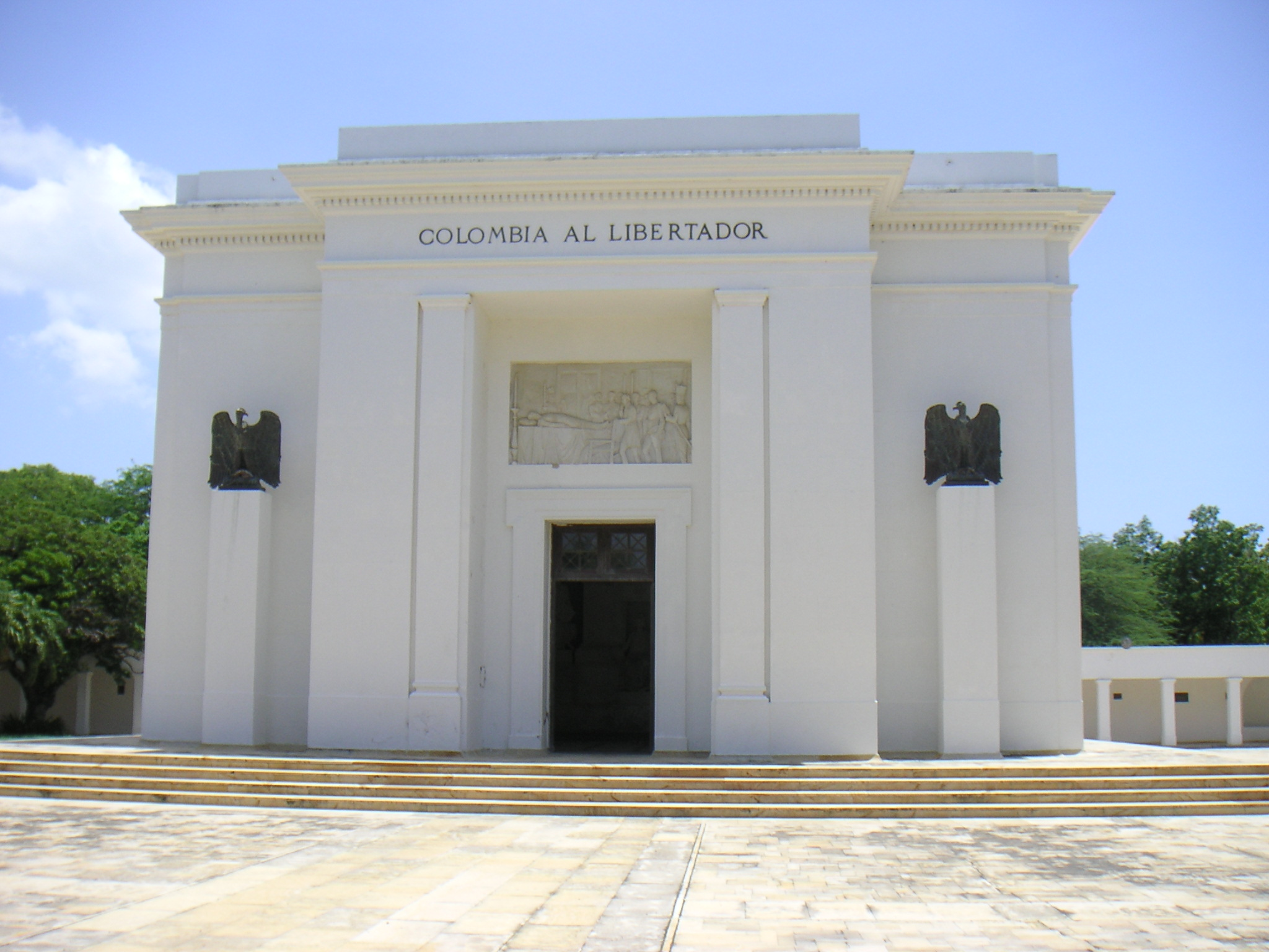 Description: Simon Bolívar Memorial Monument, near Santa Marta, Colombia Source: Louise Wolff (darina), May 2005